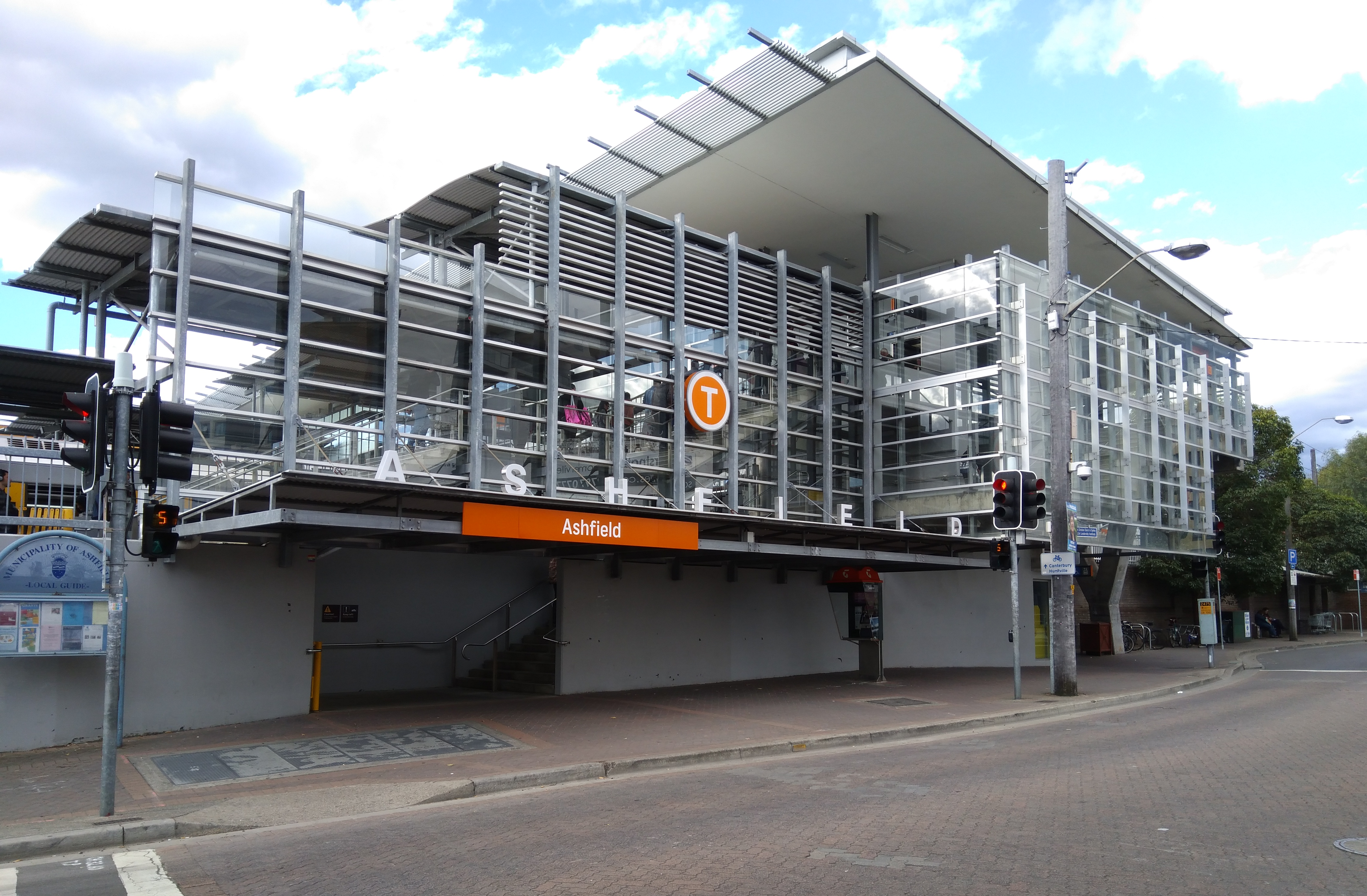 Ashfield railway station southern entrance.